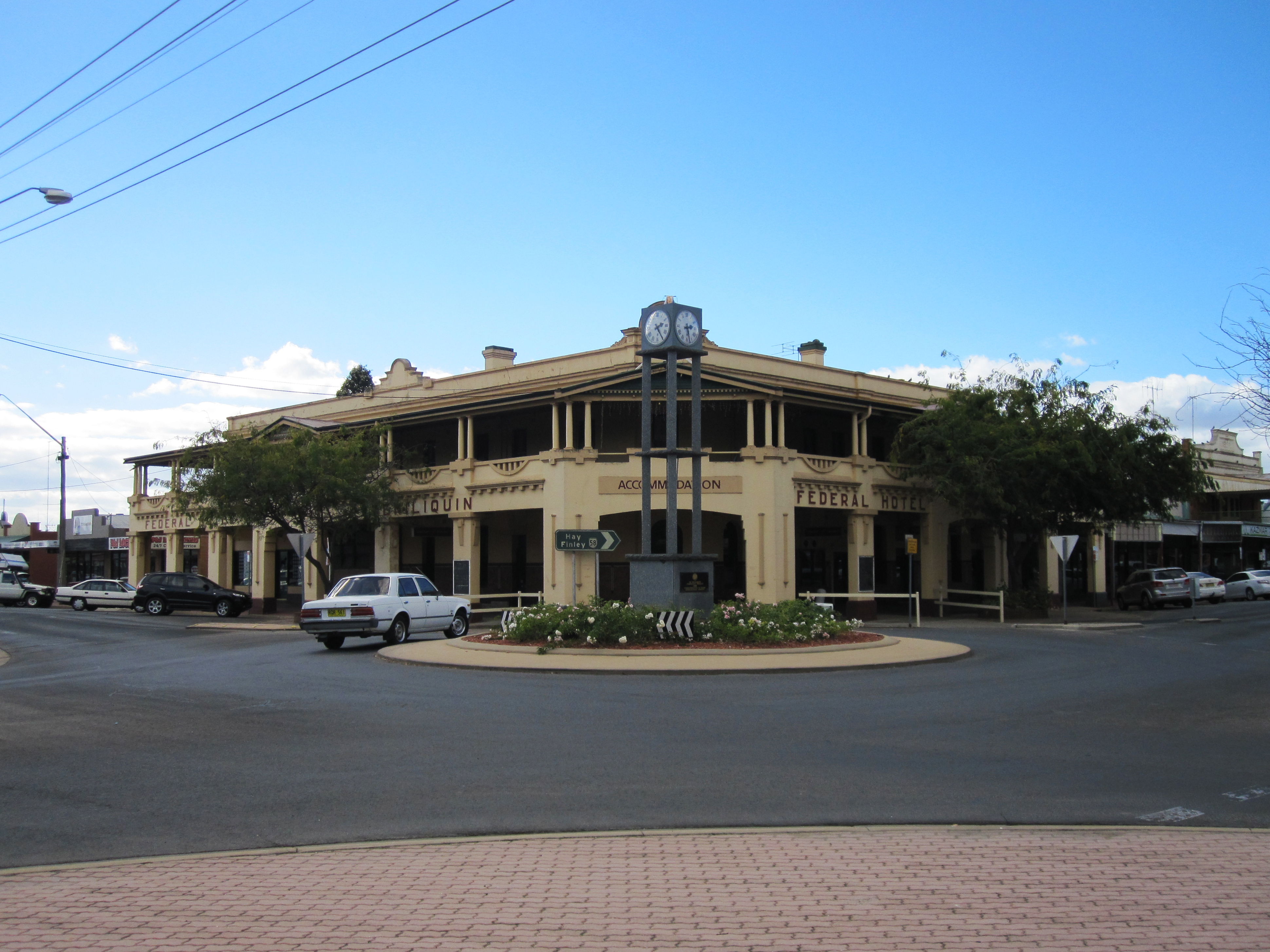 The Federal Hotel in Deniliquin, New South Wales